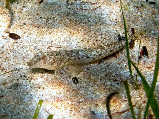 Callionymus risso photographed in Cres, Croatia.